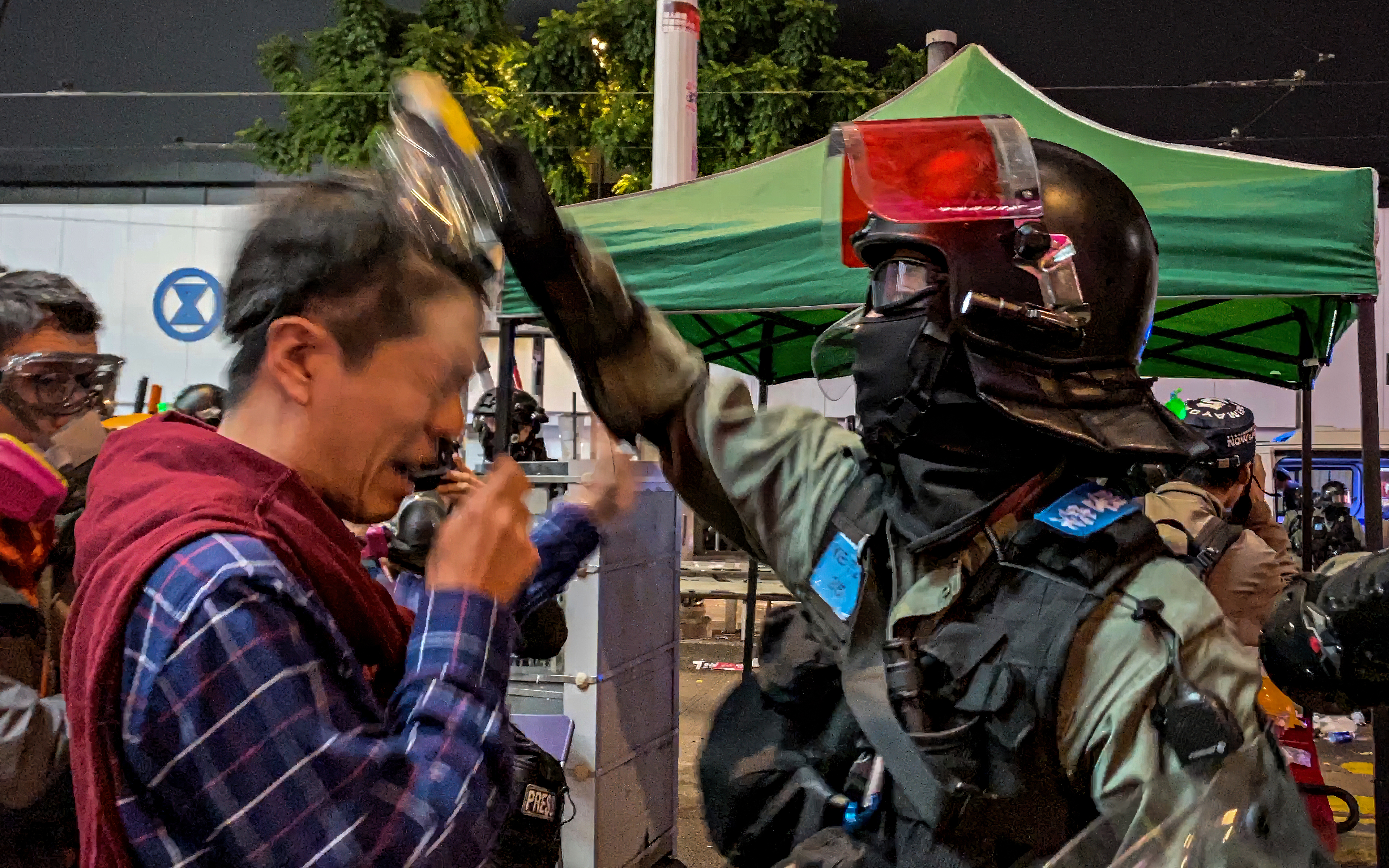 Riot police attacked Legislative Councillor Ted Hui Chi-fung and then pepper spraying citizens and journalists